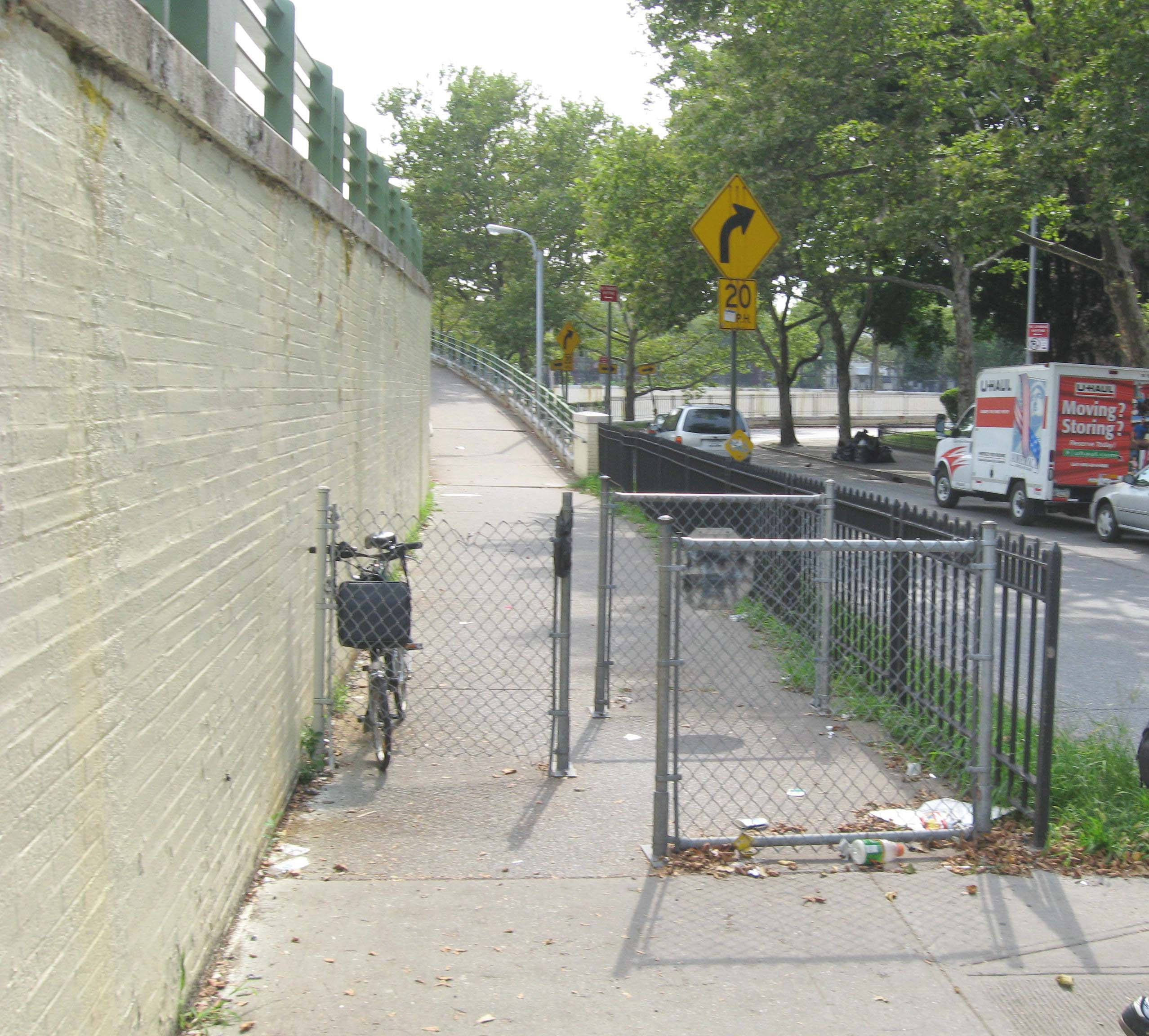 Looking west at a bike slalom at the eastern foot of the Prospect Expressway overpass of Fort Hamilton Parkway in Brooklyn intended to discourage too fast exit from the bikeway. For Bicycle safety article